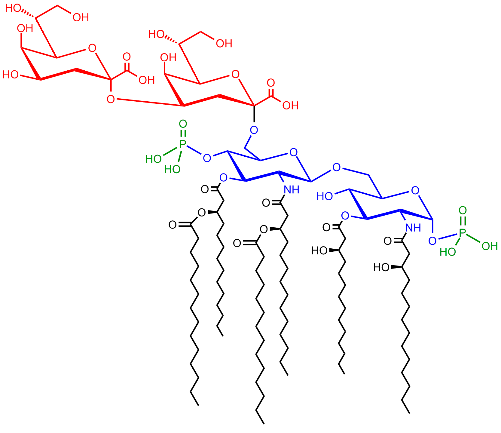 Structure of the (3-deoxy-D-manno-octulosonic acid)2 Lipid A endotoxin from E. coli K-12